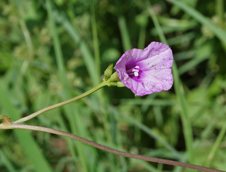 Lavender Moonvine or Gariya Ipomoea turbinata in Hyderabad , India.